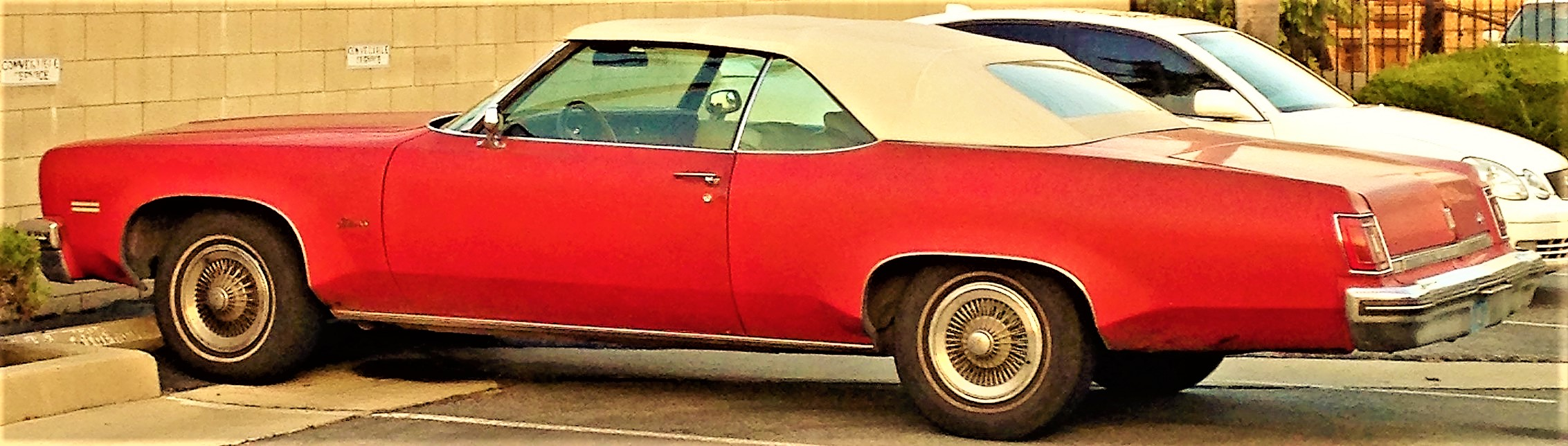 Olds Delta 88 Royale Convetible